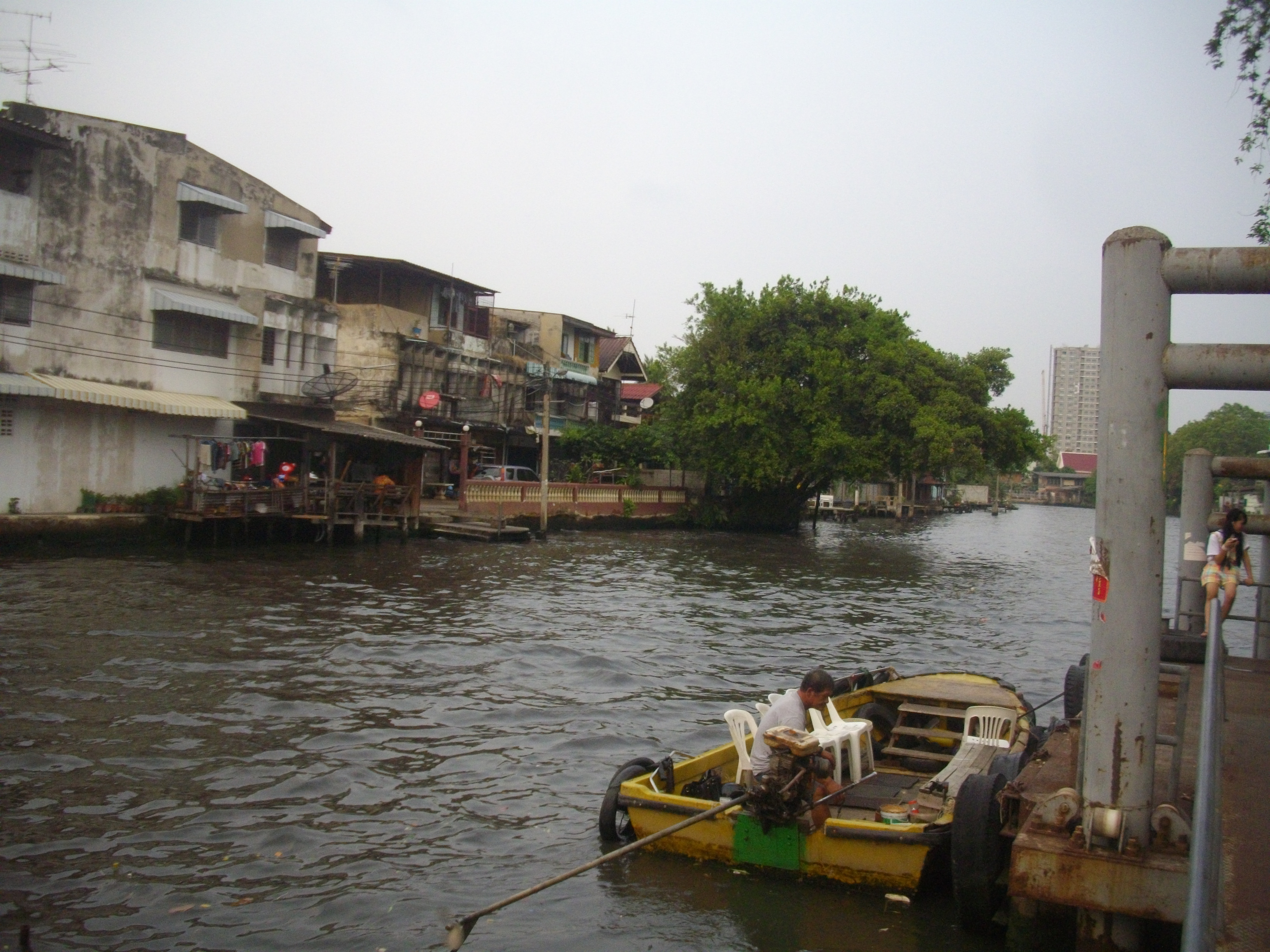 คลองบางกอกใหญ่หรือคลองบางหลวง ด้านหลังวัดอินทาราม (วัดบางยี่เรือนอก หรือวัดบางยี่เรือใต้) แขวงบางยี่เรือ เขตเทอดไทย กรุงเทพมหานคร